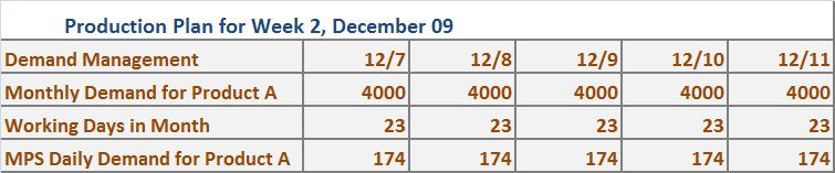 An example of a (very) simplified Master Production Schedule for 'Product A'.